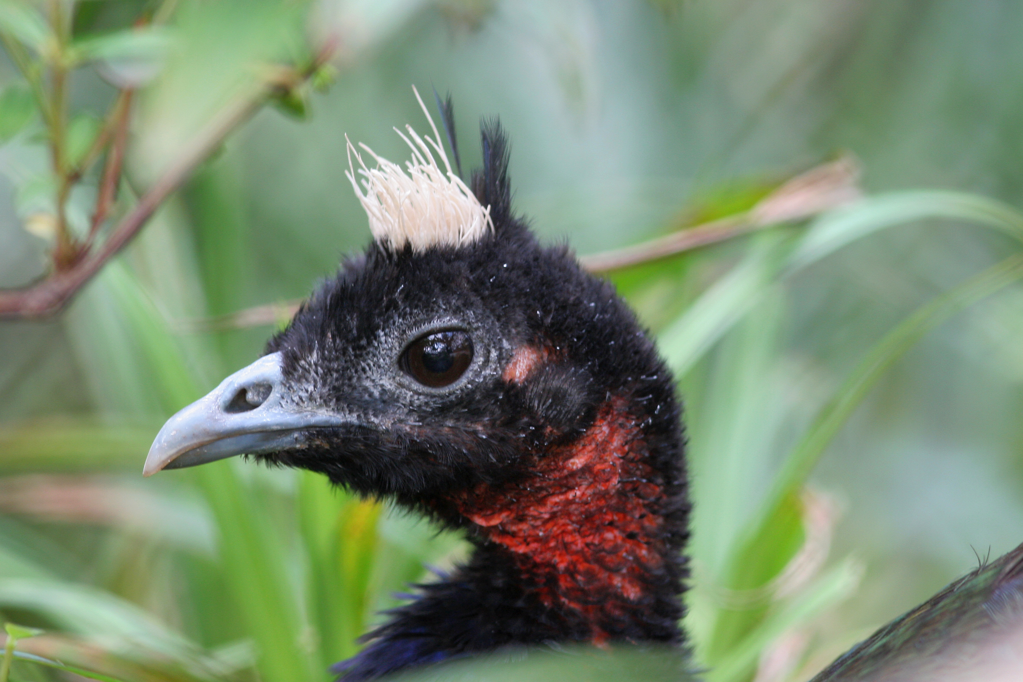 A female Congo Peafowl at Artis Zoo, Amsterdam, Netherlands.